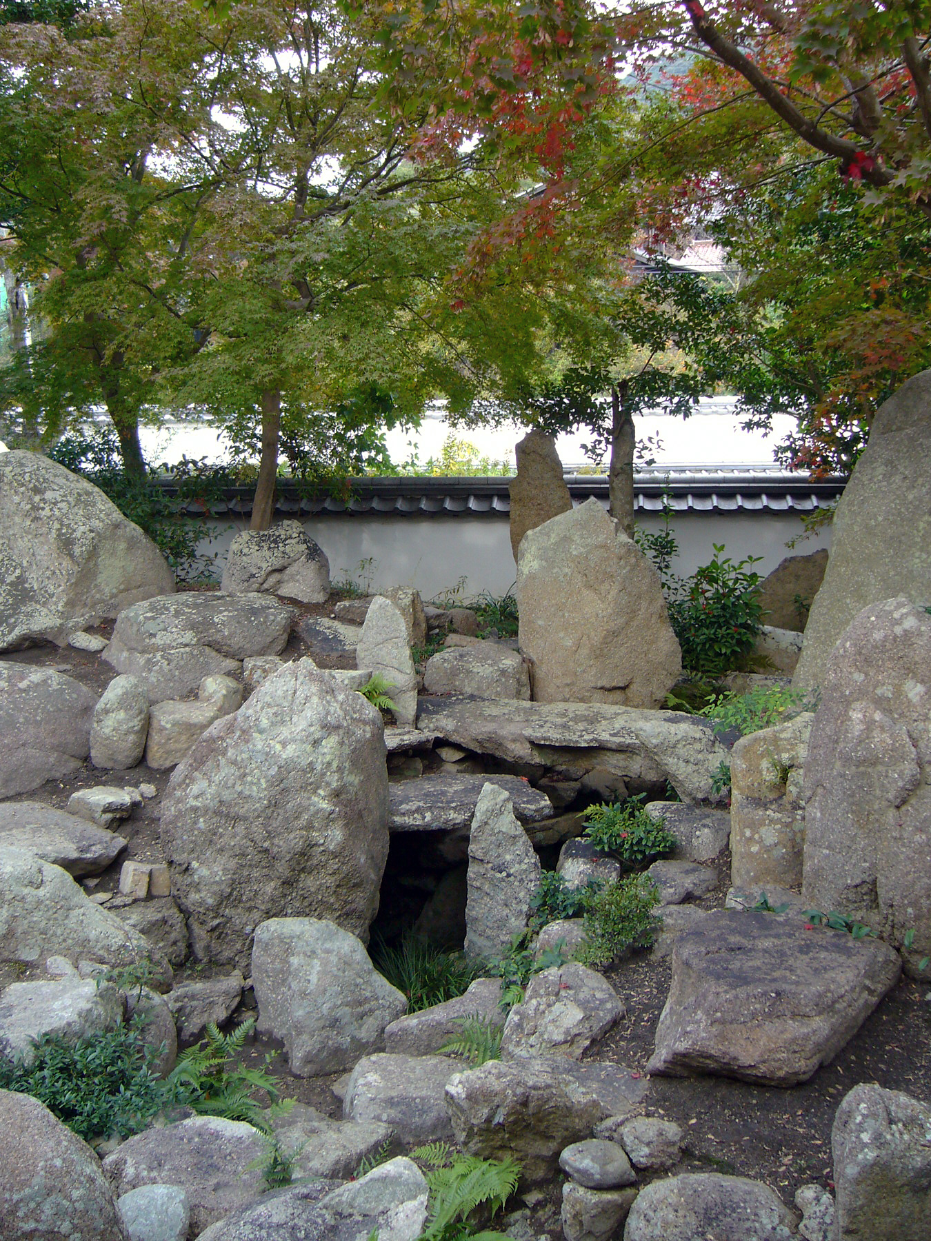 Anyoin, Kobe, Hyogo prefecture, Japan